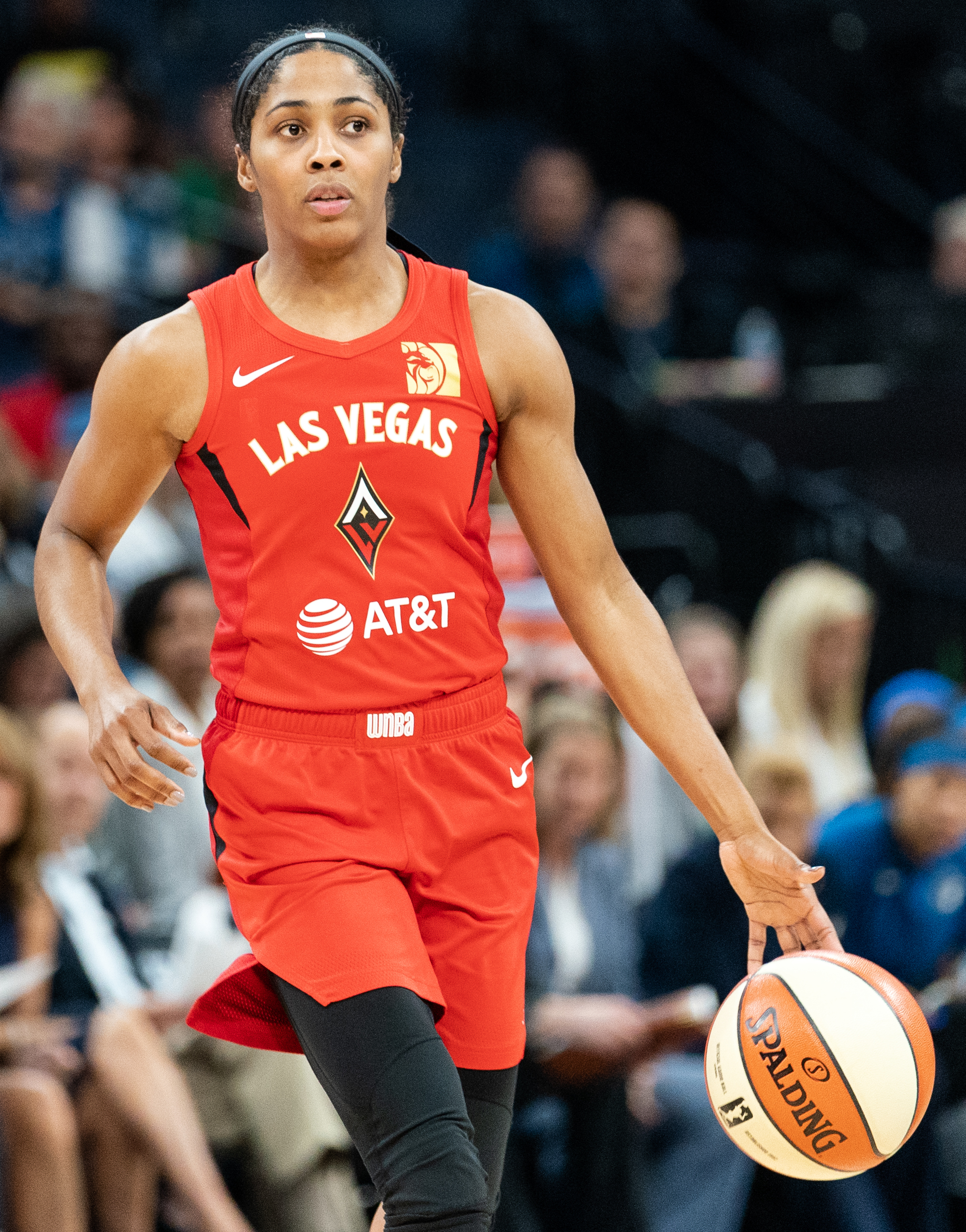 Las Vegas player Sydney Colson in a game against the Minnesota Lynx